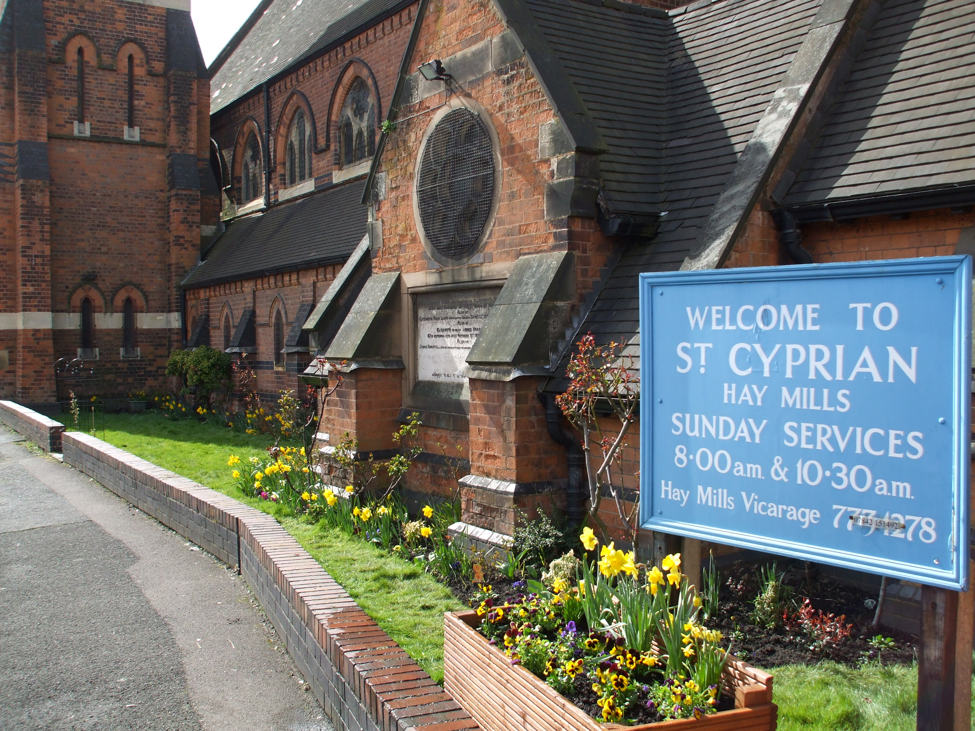 The grade II listed church of St Cyprian, built by James Horsfall in 1873 at Hay Mills factory in Small Heath, Birmingham, England. The restored church garden at Easter 2010